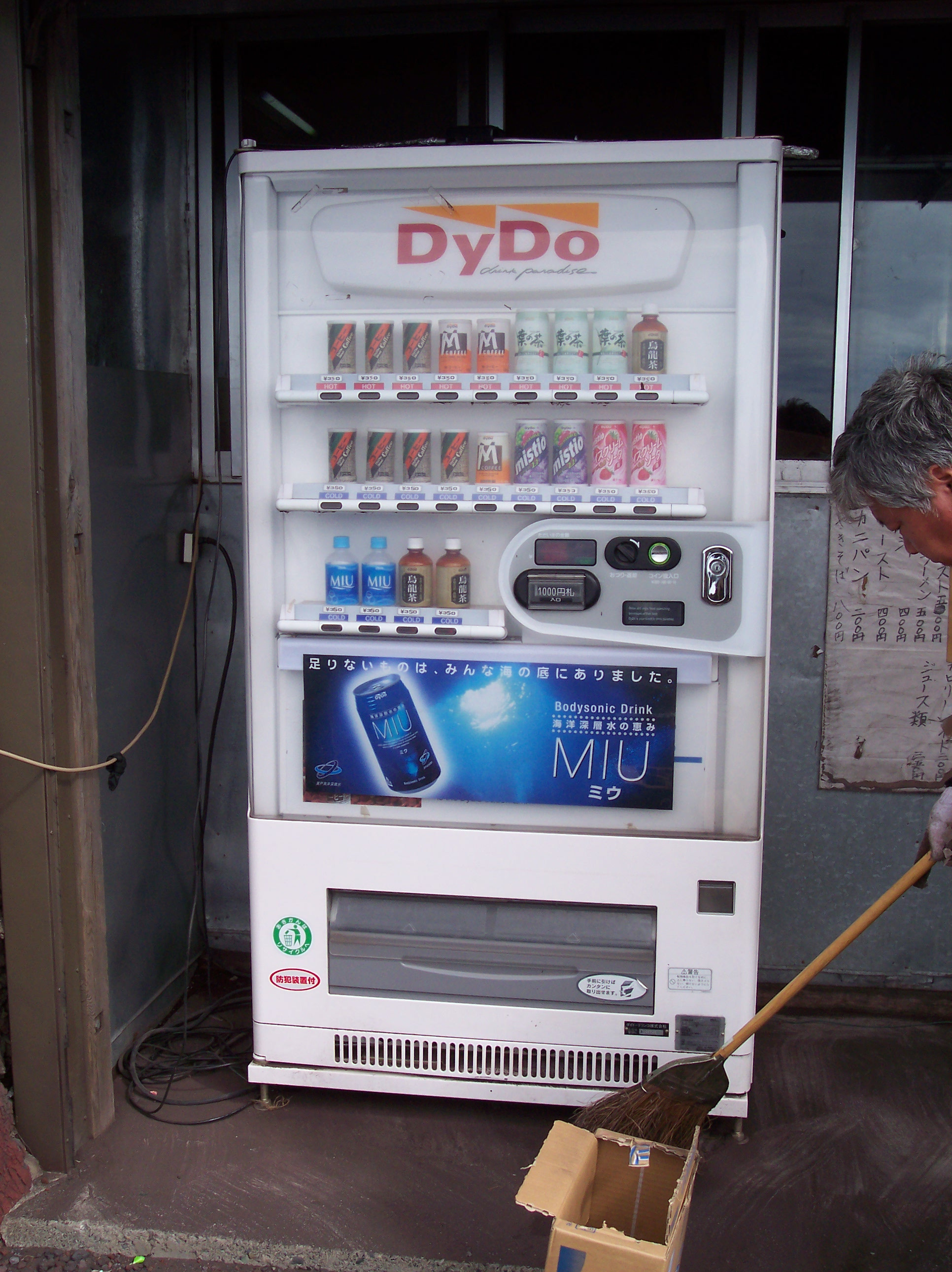 Canned coffee comes hot from the vending machines in Japan!